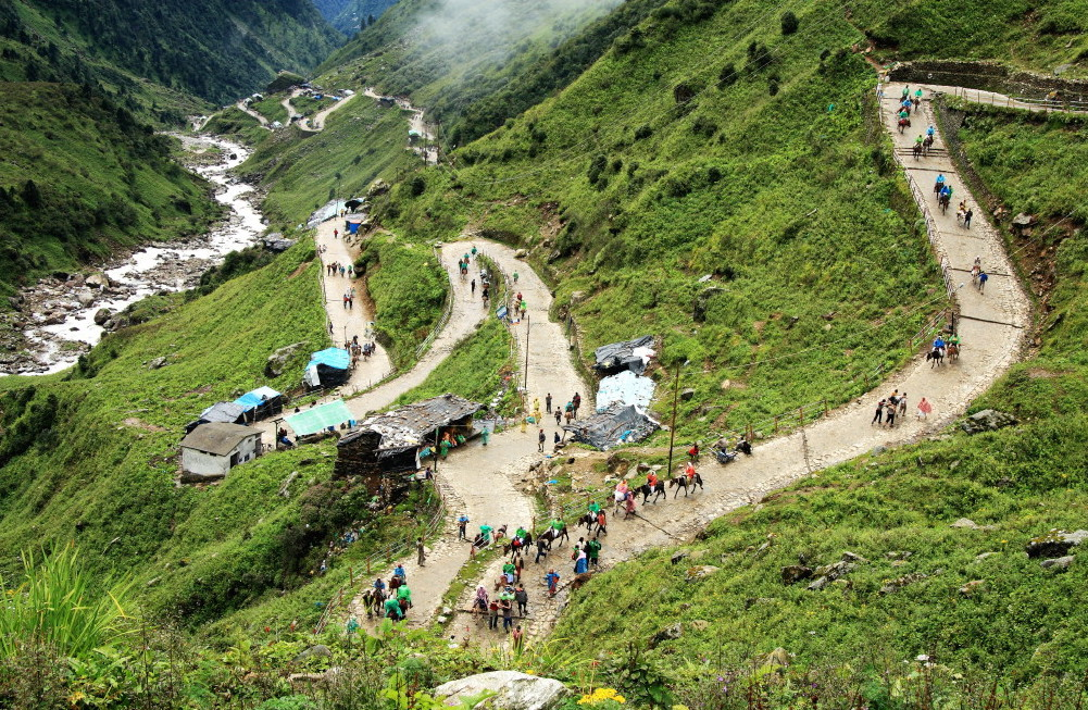 While going to Kedarnath-- INDIA Camera: Canon EOS 450D License on Flickr (2011-02-09): CC-BY-2.0